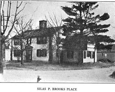 Silas P Brooks House Maynard MA